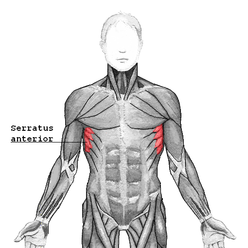 Serratus anterior muscle